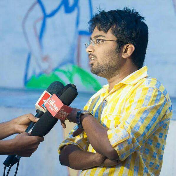 ಕನ್ನಡ: Author Supreeth K N